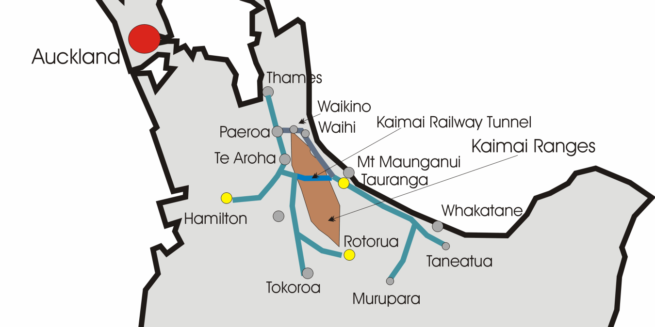 Map of North Island New Zealand, East Coast Main Trunk Line Detail